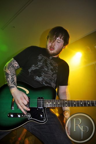 Chris Branton Live in 2010